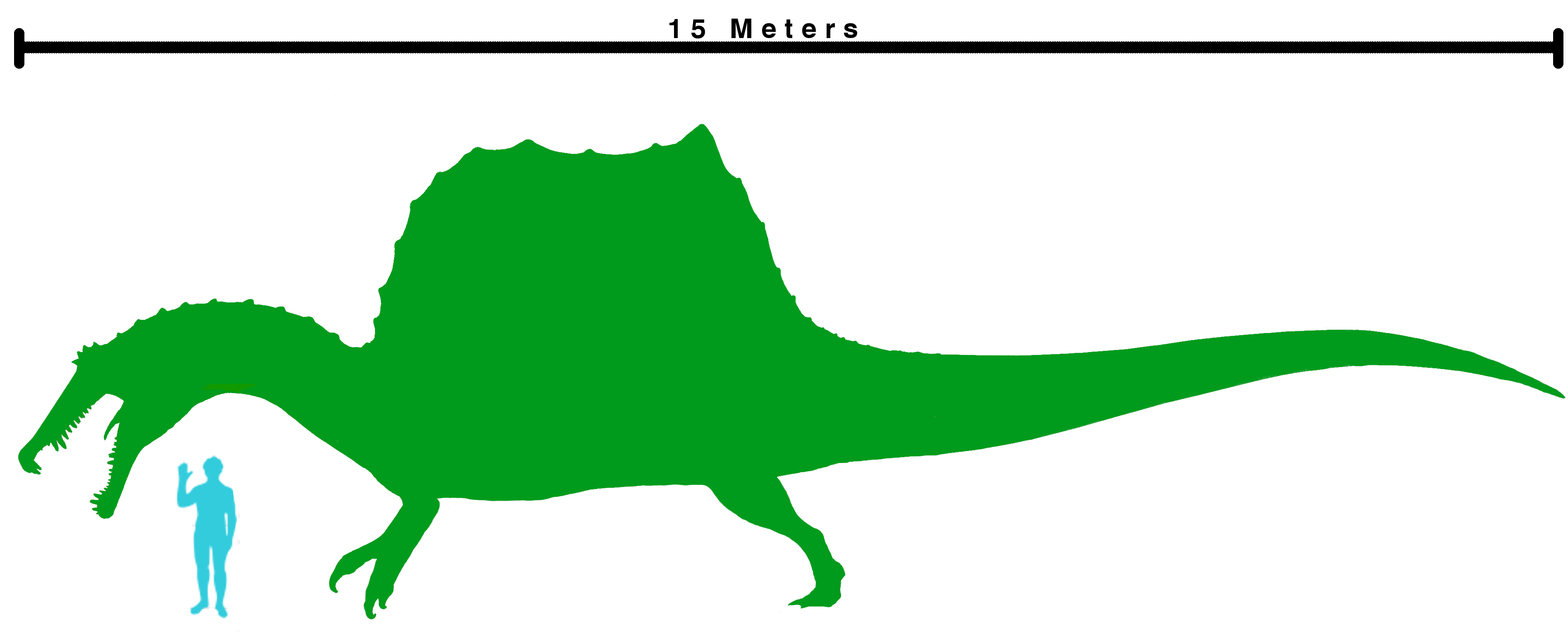 Size comparison of Spinosaurus and a human.